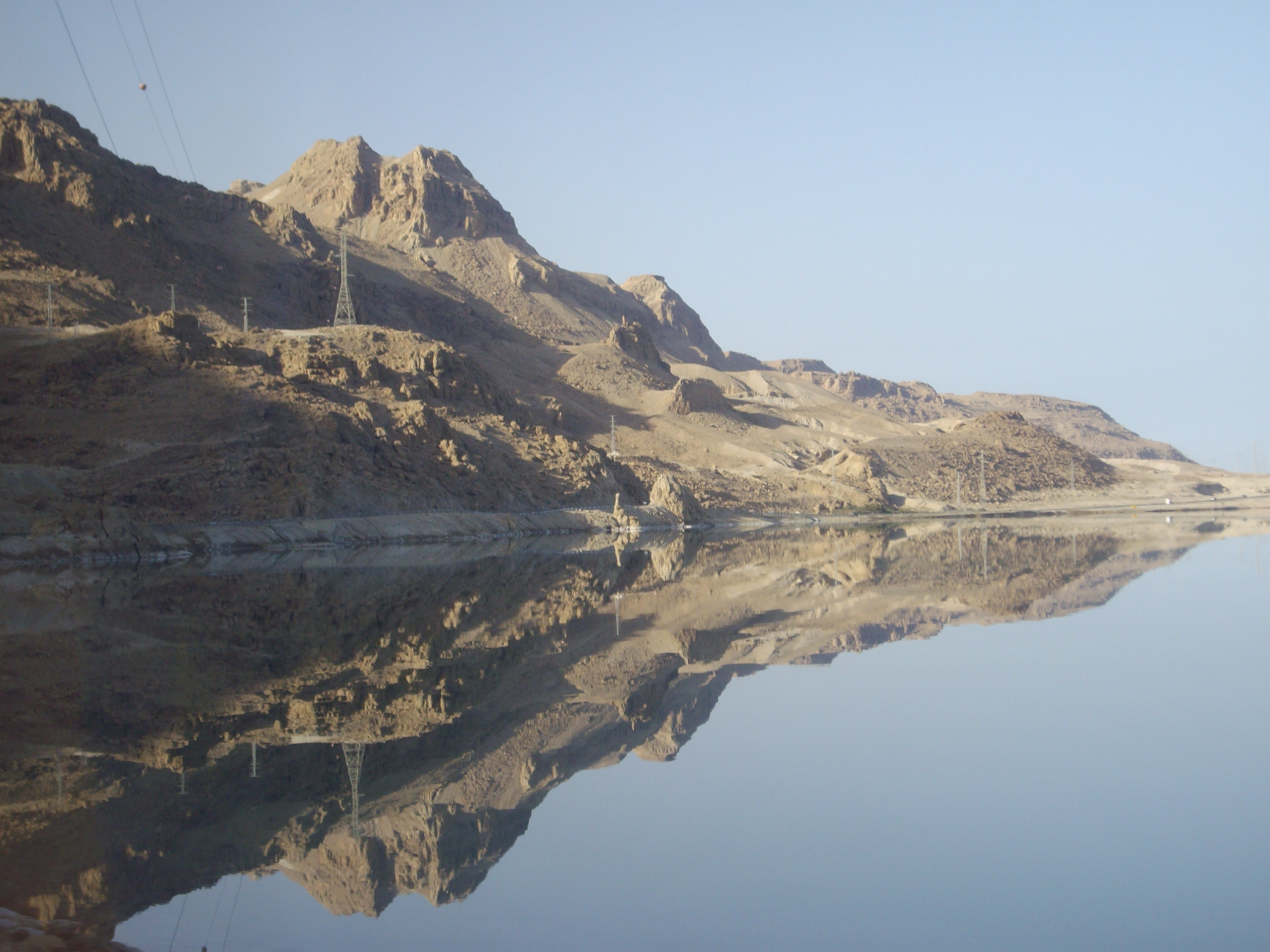 Eilat mountens